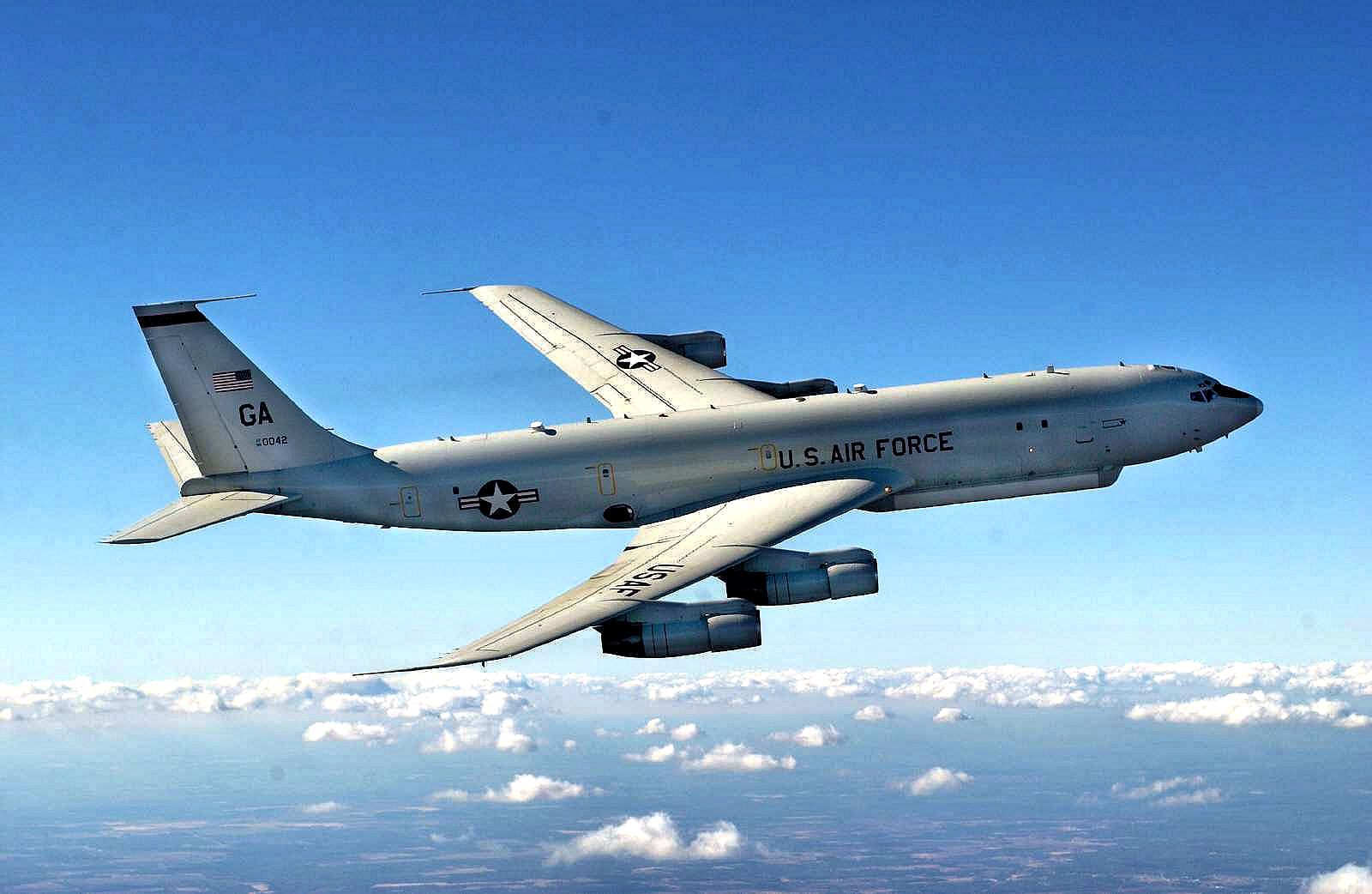 116th ACW E-8C Joint STARS 96-0042. Was a Boeing 707-347C (CC-137) c/n 20319 delivered in 1970 to Canadian Armed Forces as 13705. Suffered considerable damage from debris while hangared at Northrop Grumman facility, Lake Charles, LA Sep 24, 2005 when hangar doors were blown in by Hurricane Rita. AFM 12/2005